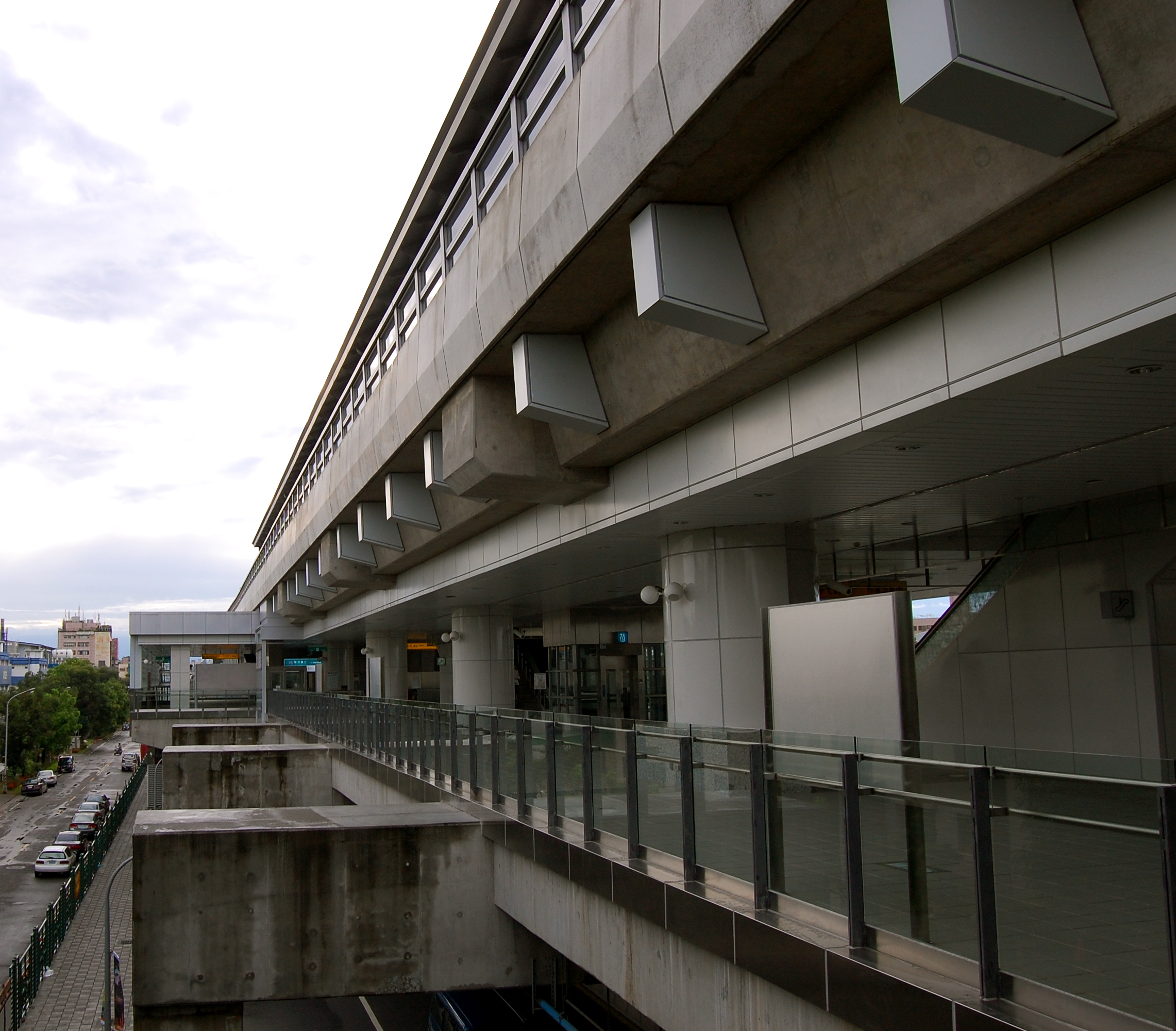 That is the name of the stop in English. The translations are kind of odd to English speakers, but they make perfect sense in Mandarin. The next stop down the line is "Oil Refinery Elementary School," which is where Yingwen studied. The school is huge and many of the schools get their own train stops.